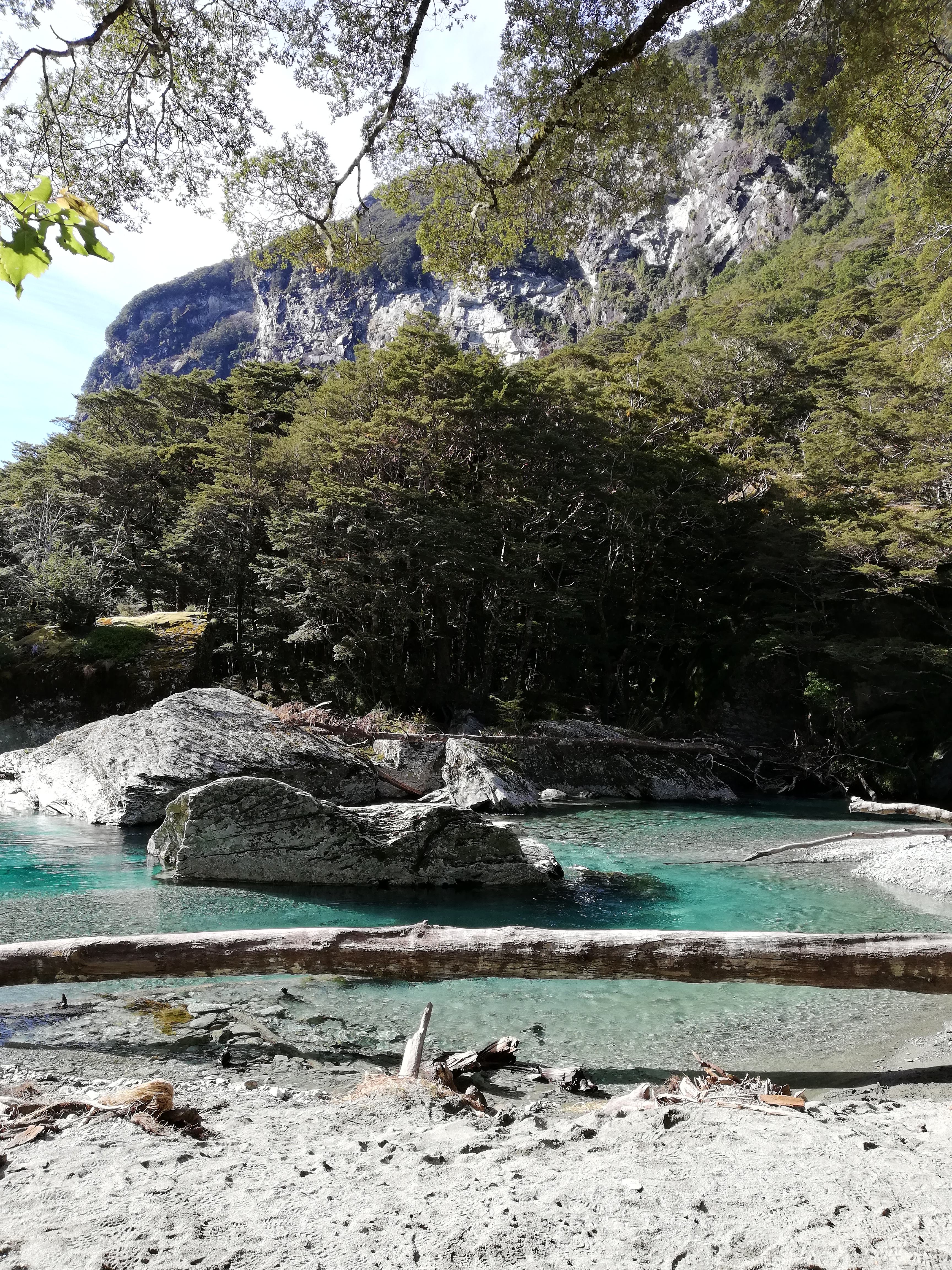 Forge Flat a rest area side track of the Routeburn Track in the Mount Asoiring National Park, New Zealand